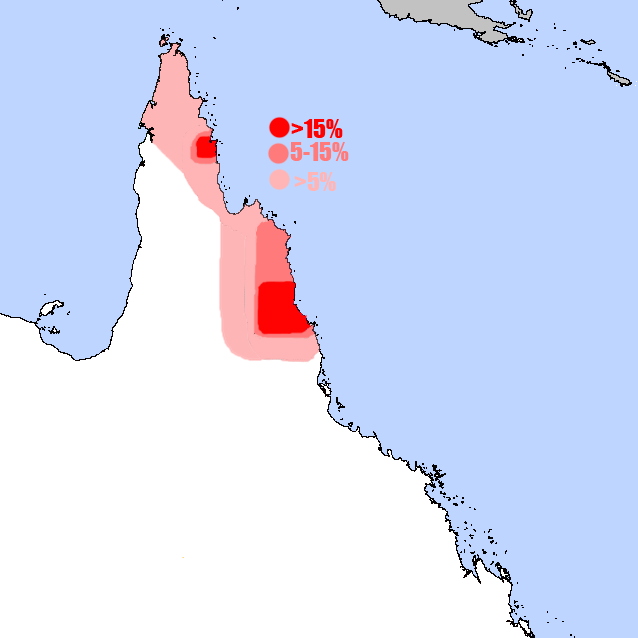 The range of the Southern Cassowary throughout Australia